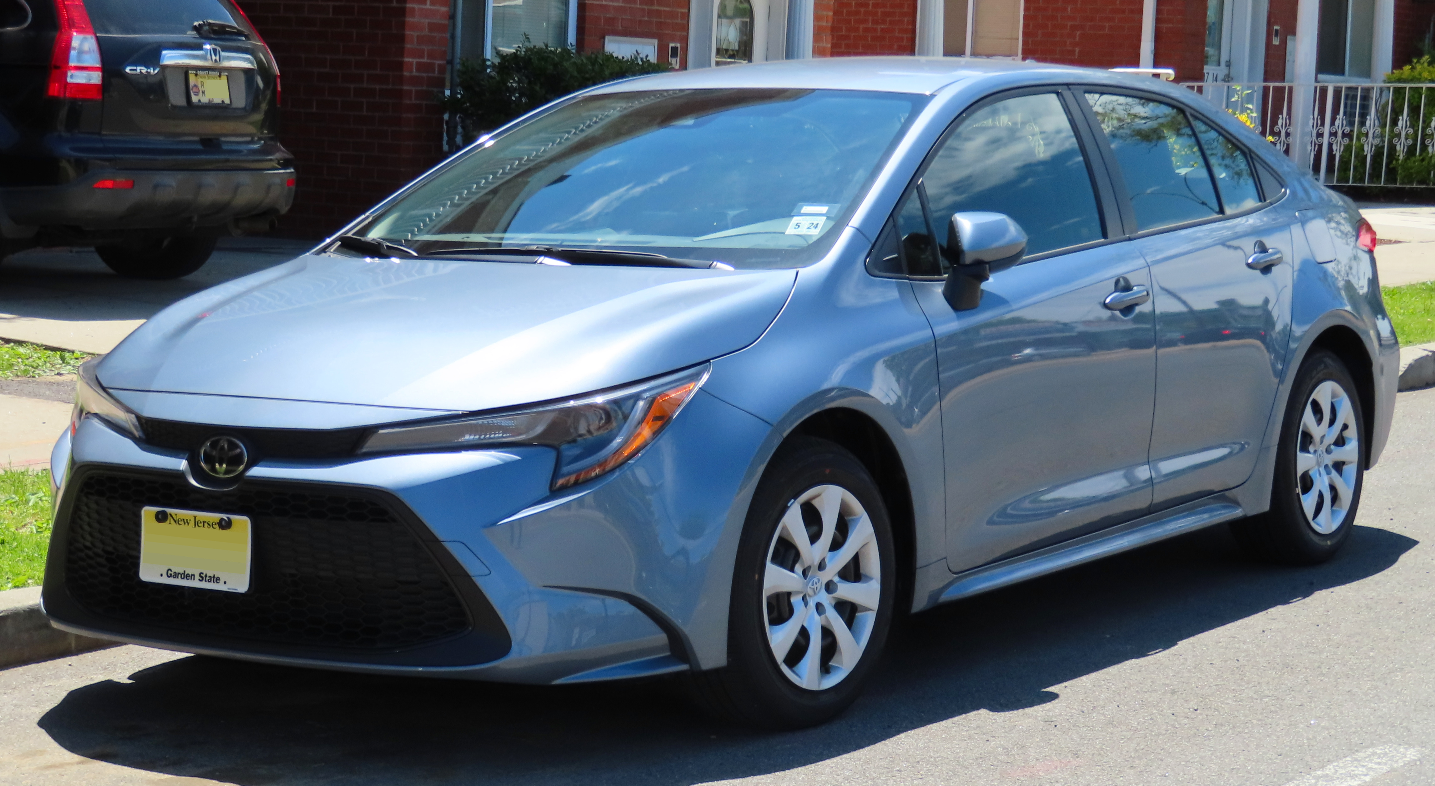 A 2020 Toyota Corolla LE photographed in Kew Gardens Hills, Queens, New York, USA